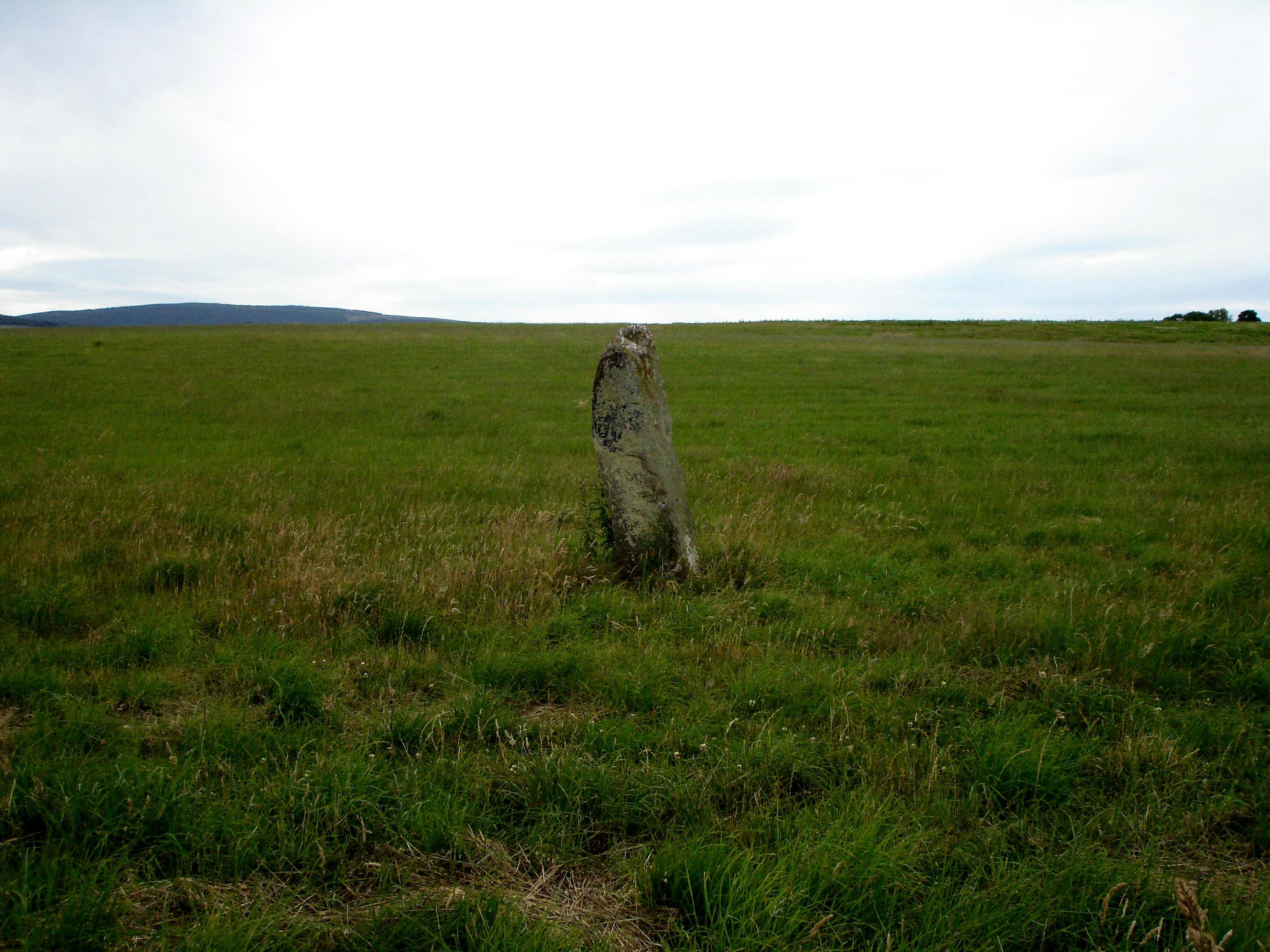 Photograph taken by uploading user, from the east, in July, 2006. Picture is of the Clach a' Mheirlich, Rosskeen, Easter Ross, Scotland.